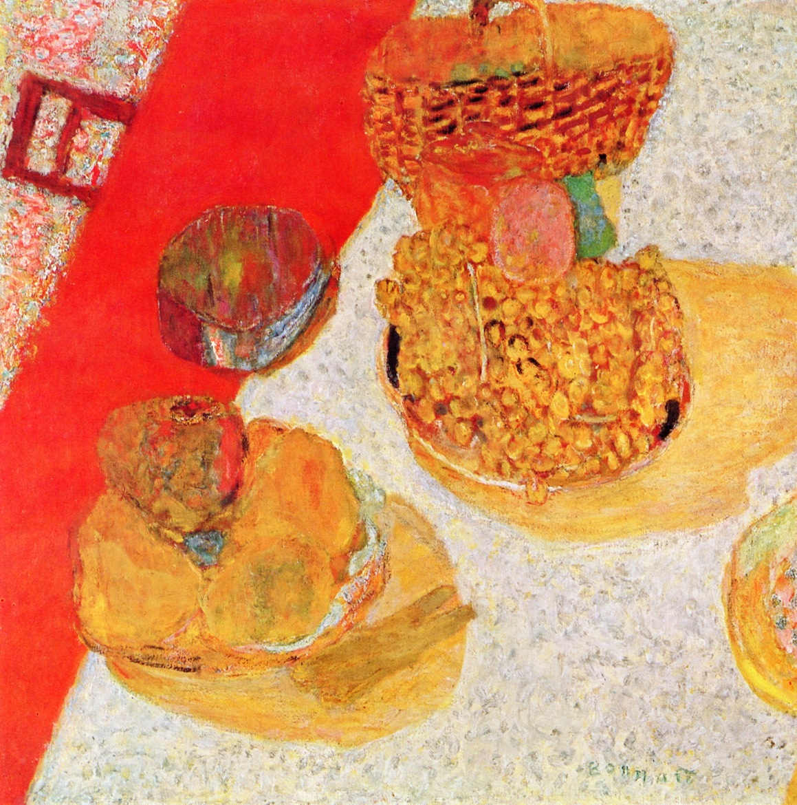 Painting by Pierre Bonnard